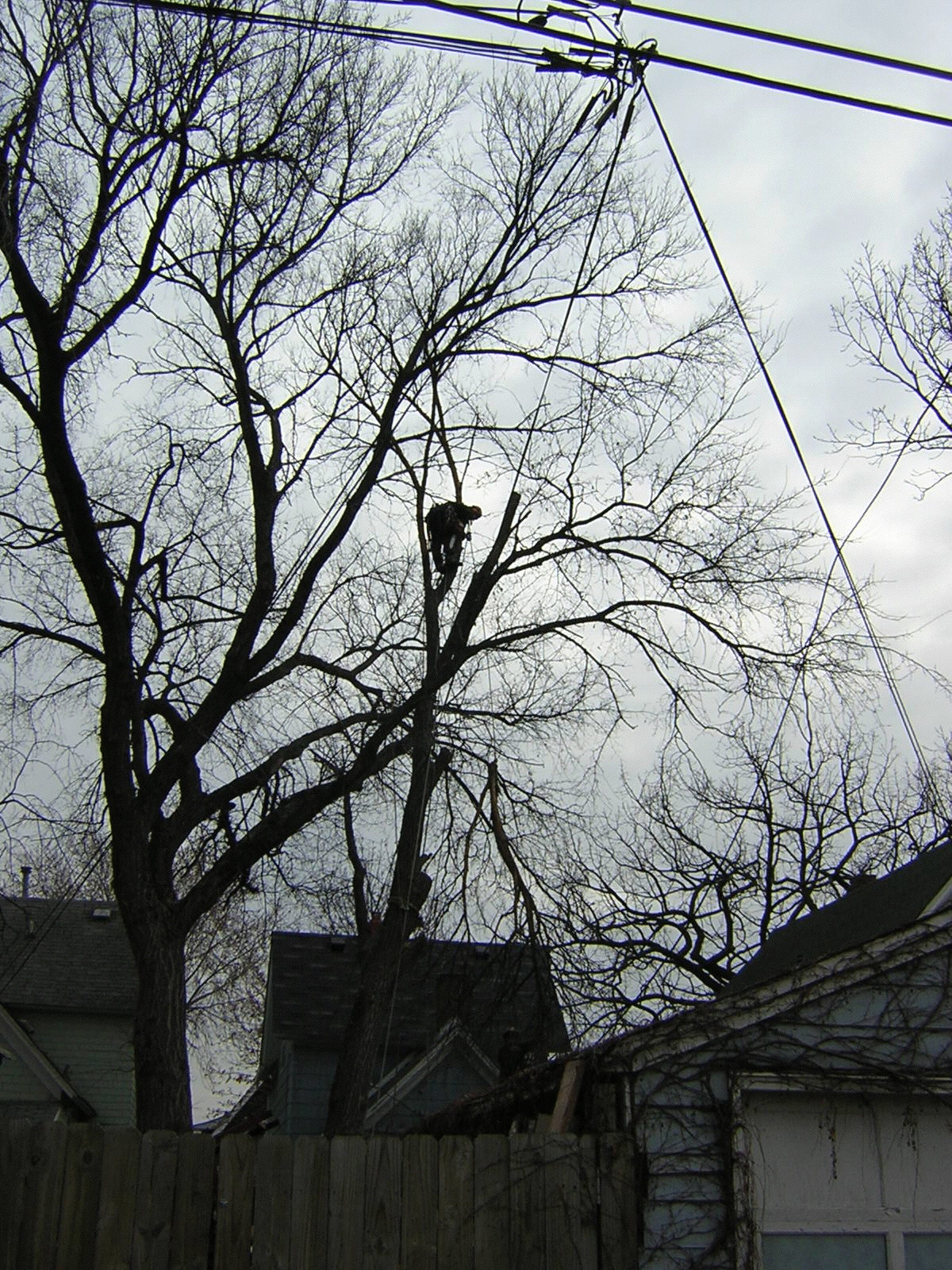 Certified arborist removing infected elm tree, Saint Paul, Minnesota, USA